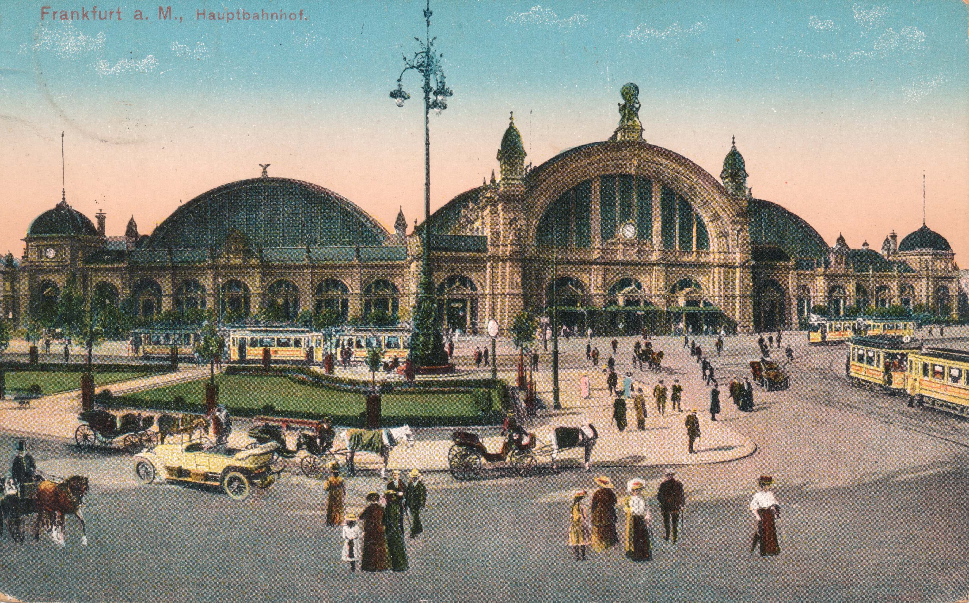 Early postcard image of the Hauptbahnhof in Frankfurt am Main, Germany.